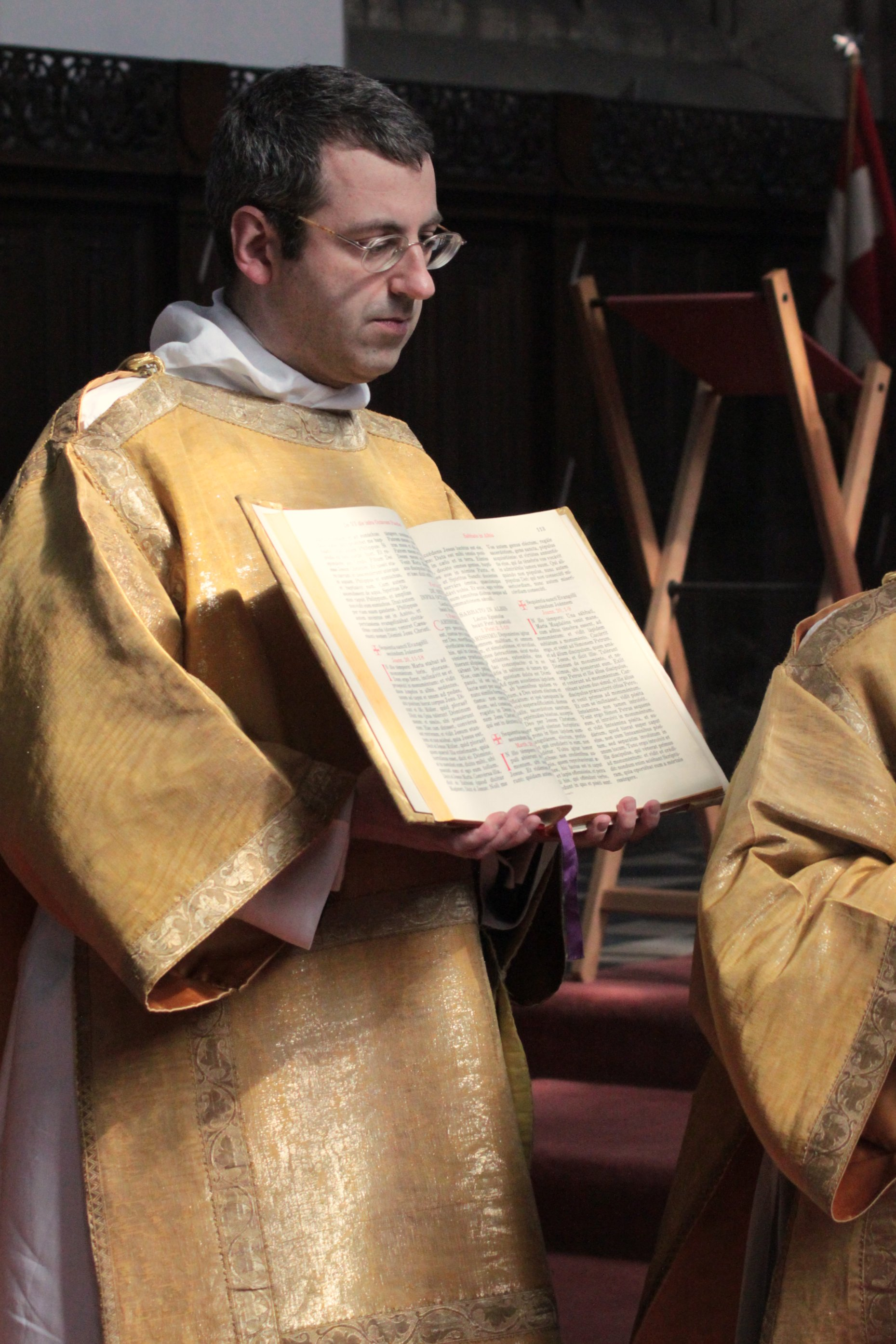 The subdeacon presents the gospel book to the bishop